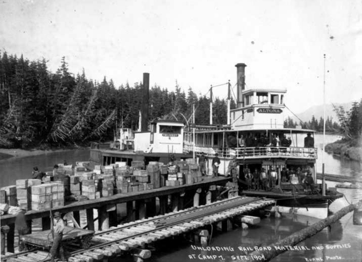 Unloading supplies off of the sternwheelers "Thlinket" and "Altona", Katalla, Alaska, with Katalla Coal Company Railroad tracks on dock. Sept. 1907.